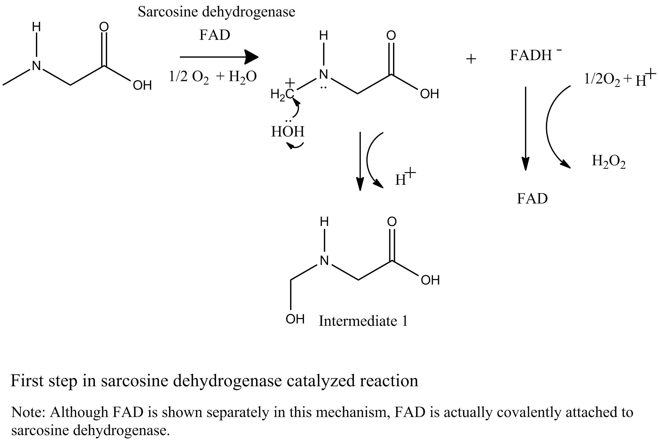 Sarcosine Mechanism 1st step 1